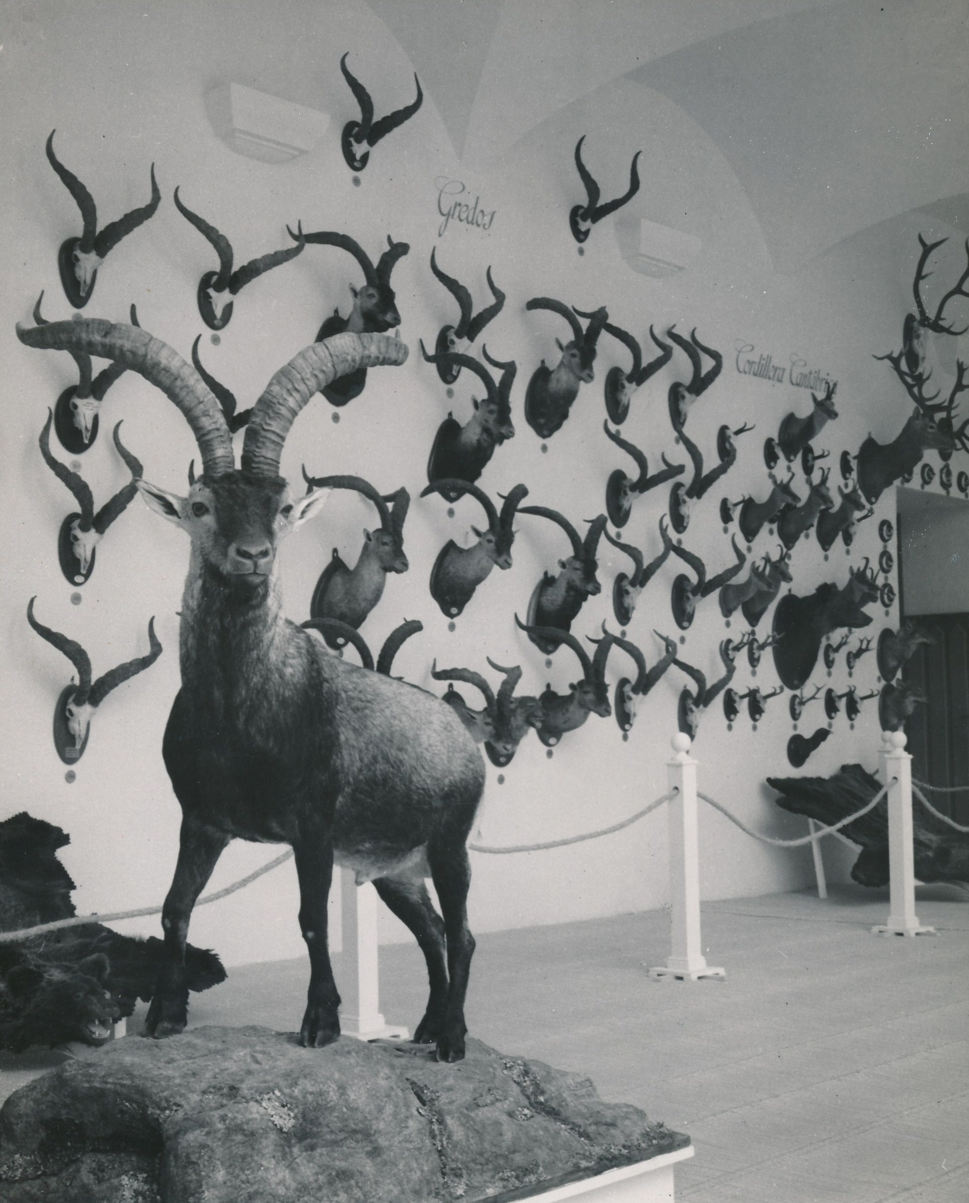 Expo of the first national competition of trophies of Spain in Madrid, 1950. A full body Spanish ibex can be seen up front, as well as numerous other Spanish ibex (Gredos, Beceite, Ronda and Southeastern), roe deer, Cantabrian/Pyrenean chamois, Cantabrian brown bear, Spanish wolf, wild boar and Iberian red deer; all finished in Spanish-style taxidermy.